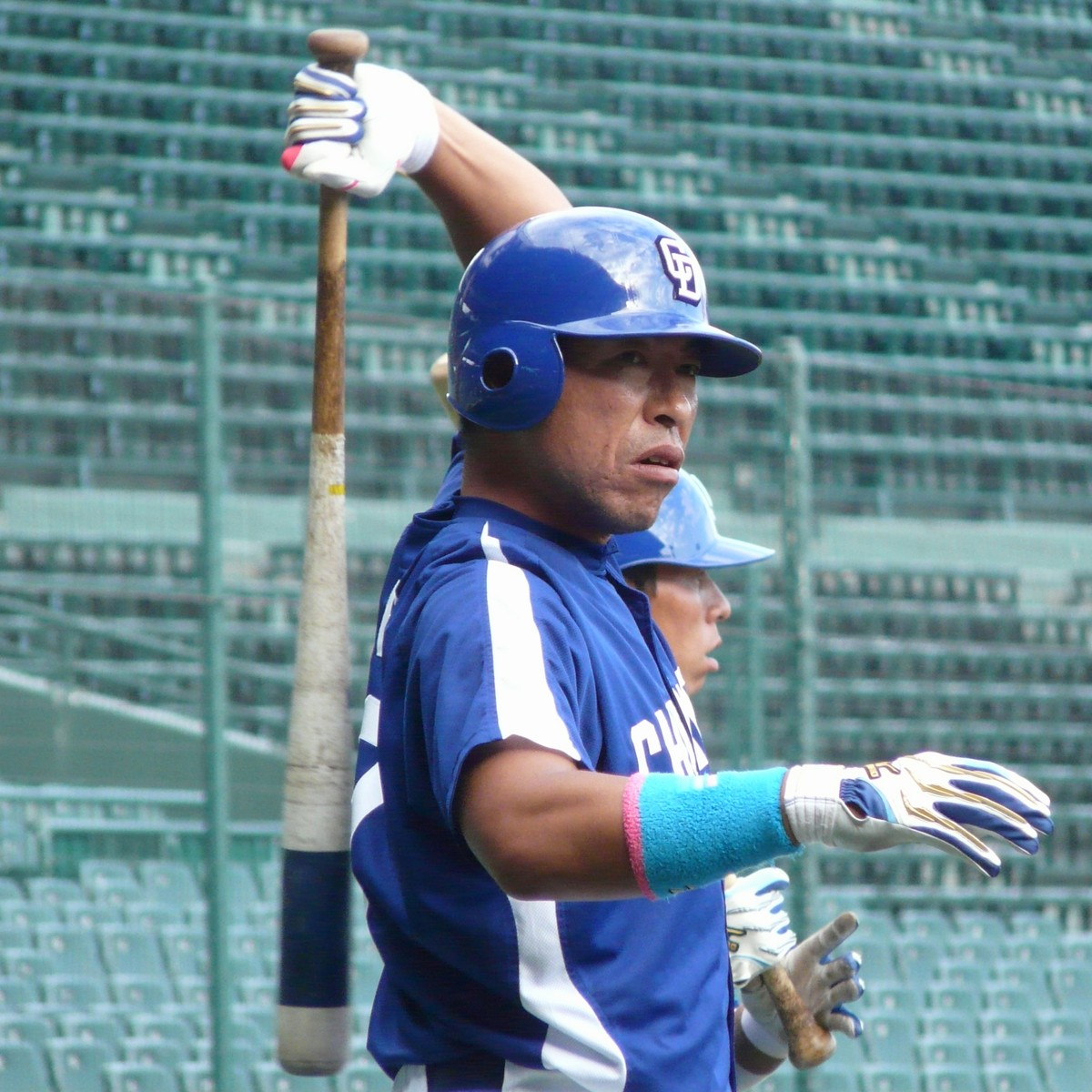 Chunichi Dragons/Kazuki Inoue